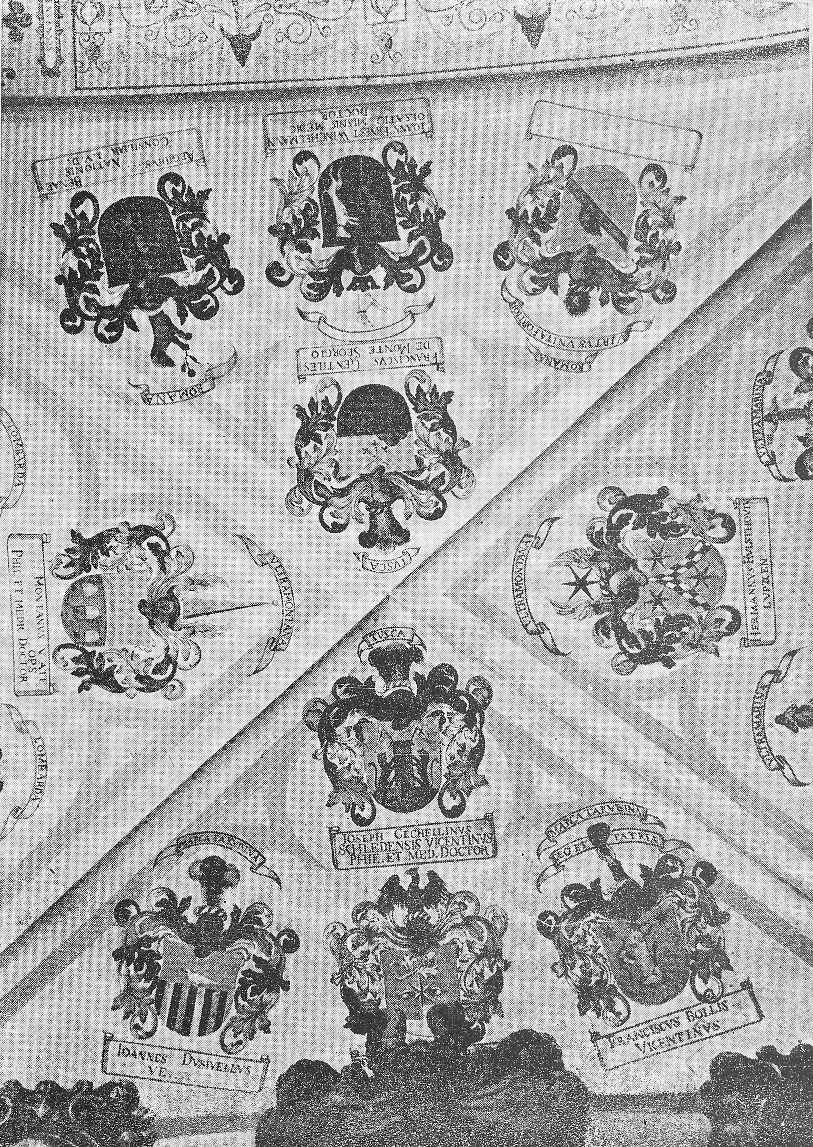 Stemma painted on the S.W. corner of the portico. Wellcome Images Keywords: Italy; Institutions; padova